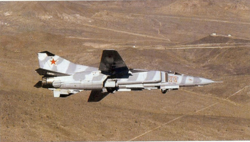 4477th Test and Evaluation Squadron MiG-23MS Red 44 in flight